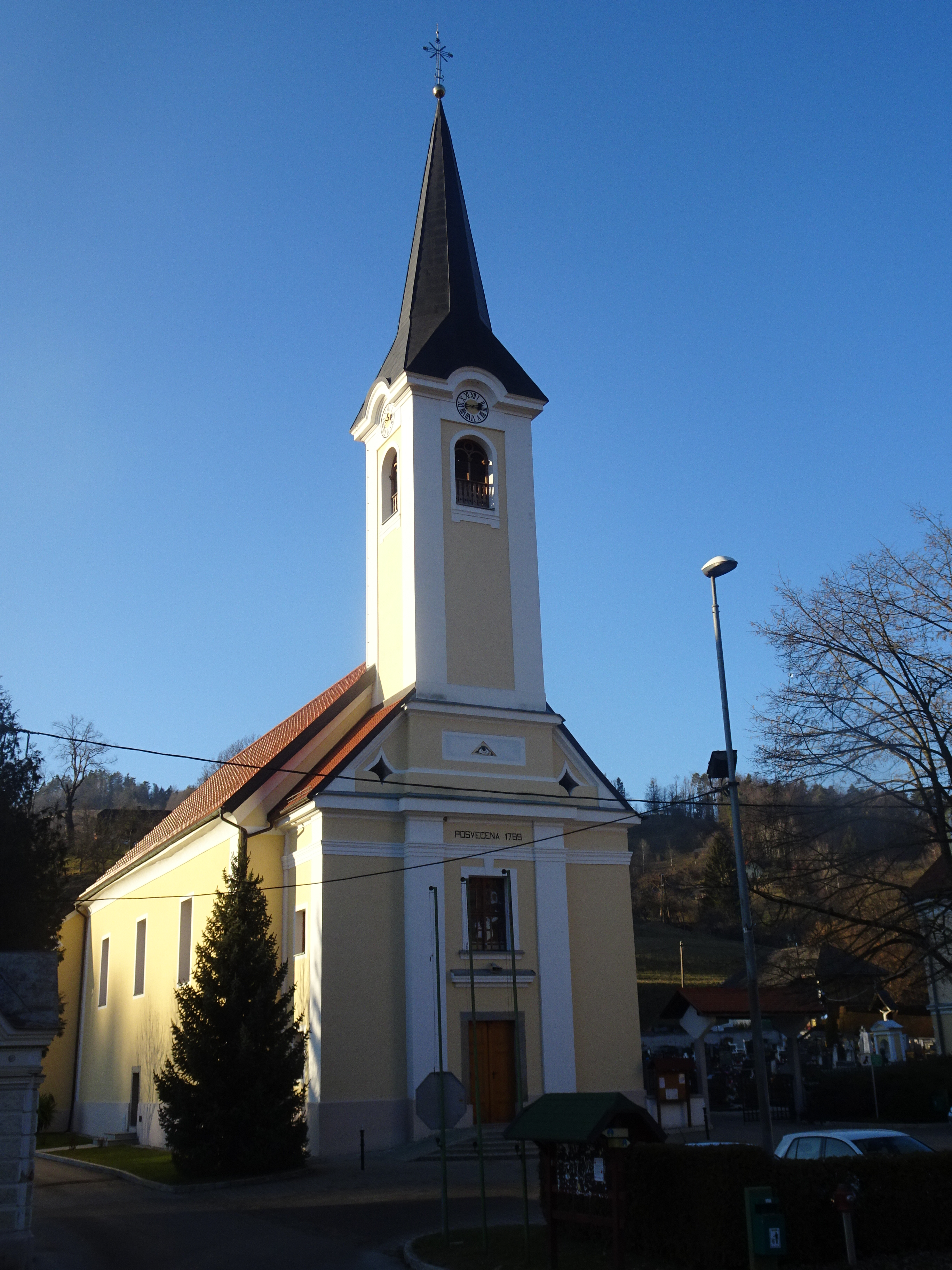 St. Joseph Parish Church, Frankolovo, Slovenia